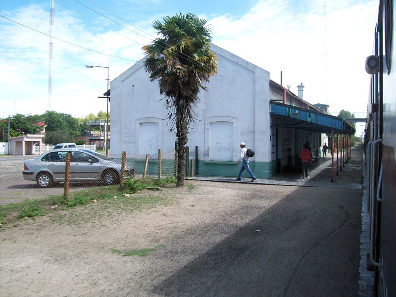 Lezama train station